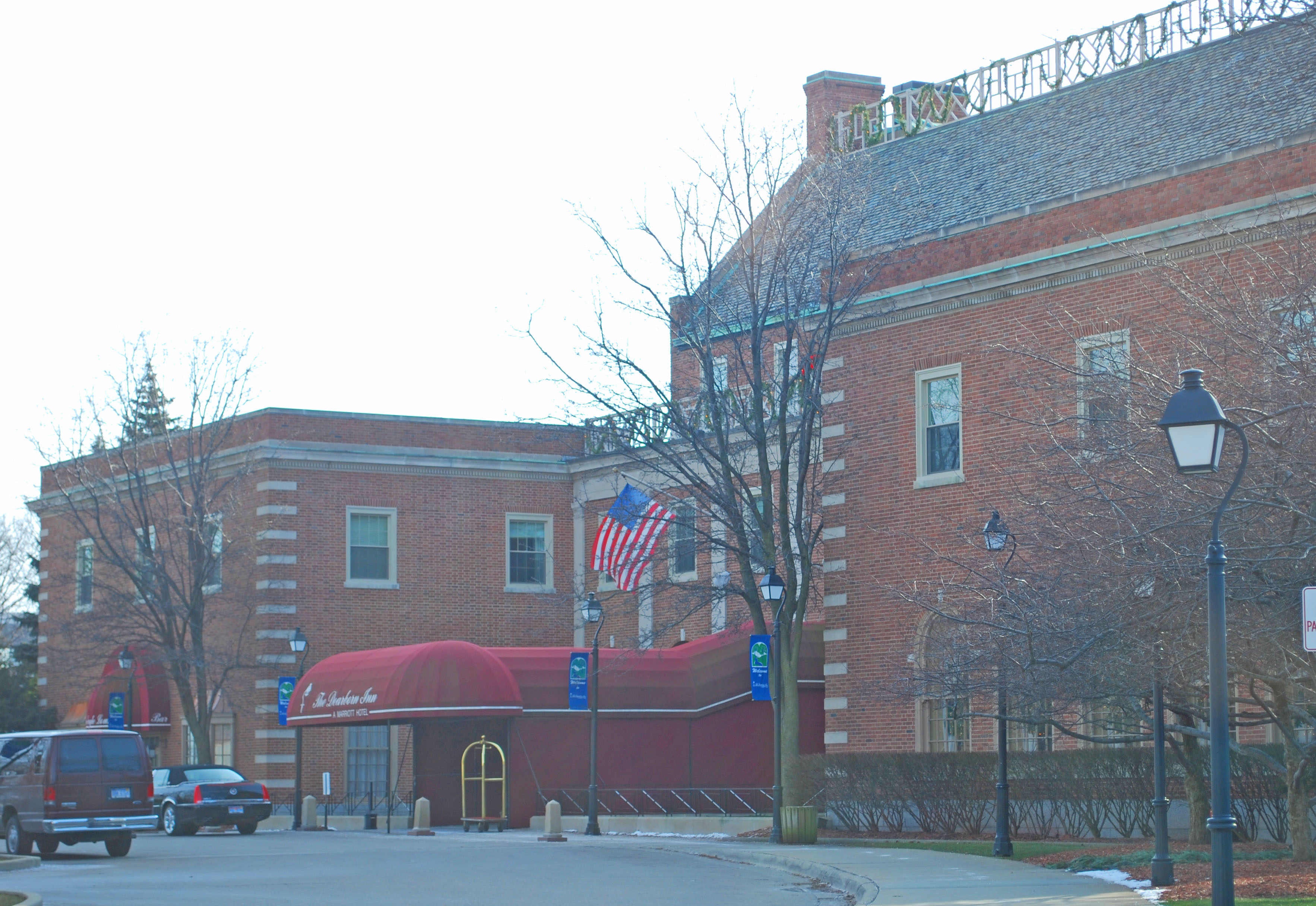 Dearborn Inn